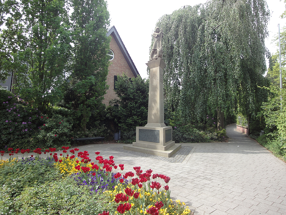 War Memorial in Rietberg-Neuenkirchen